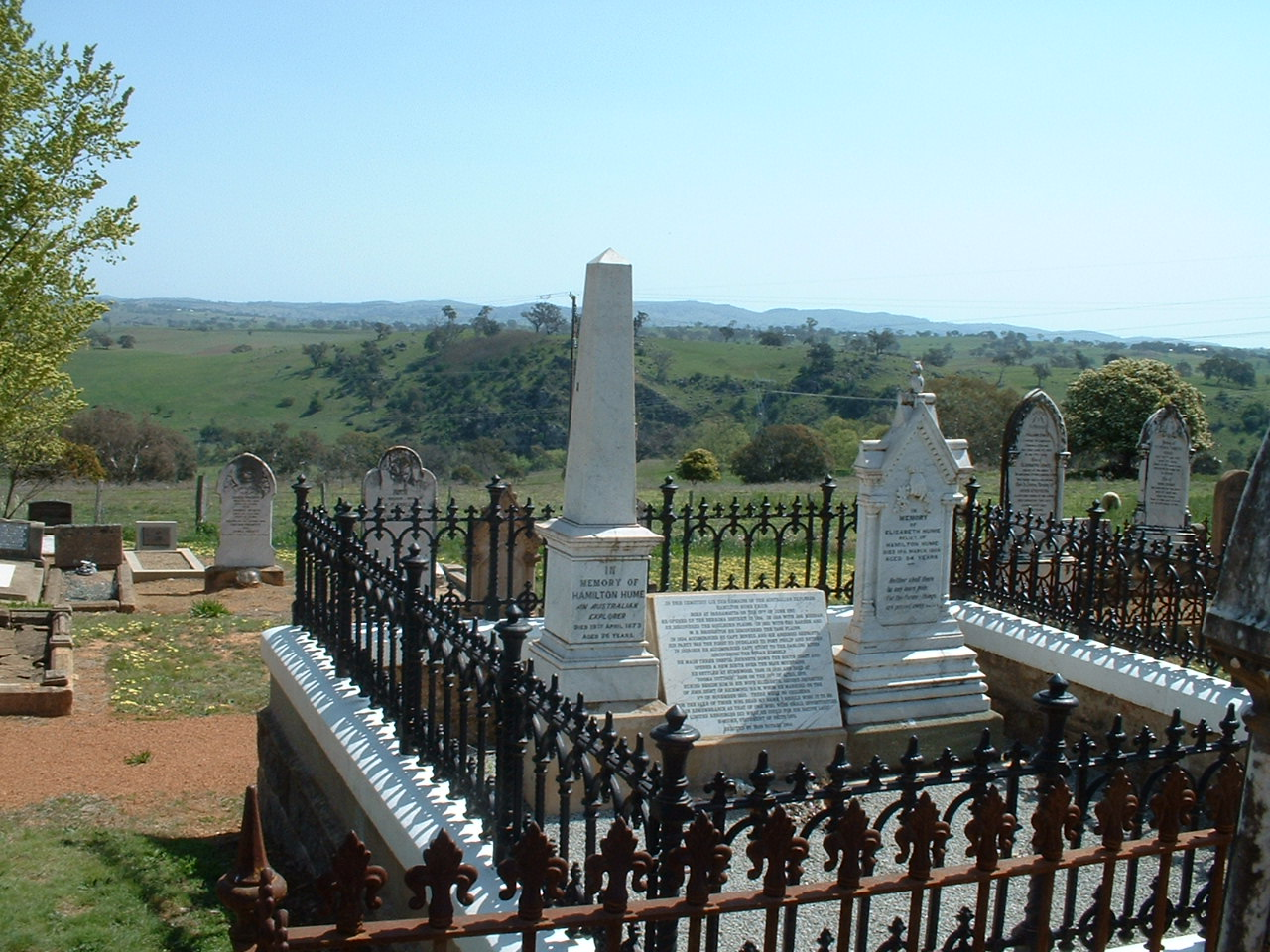 The grave of Australian explorer, Hamilton Hume, and his wife, Elizabeth (nee Dight), at Yass, New South Wales.